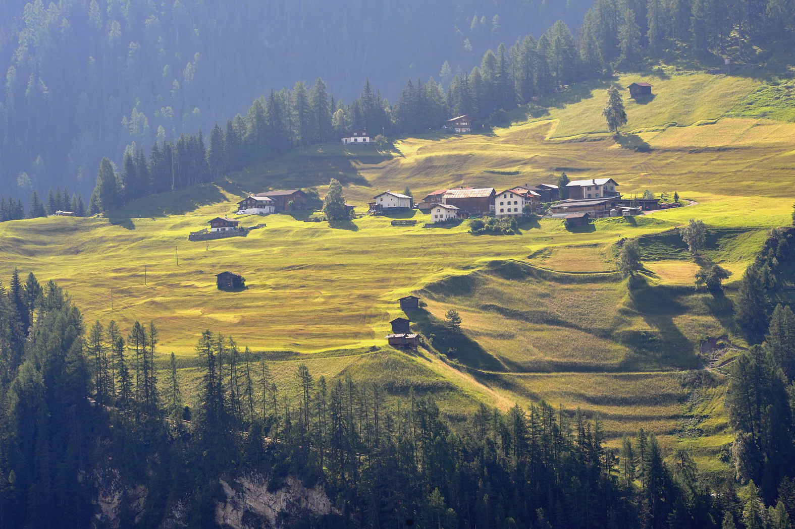 View from Wiesen to Jenisberg in backlight; Graubünden, Switzerland.